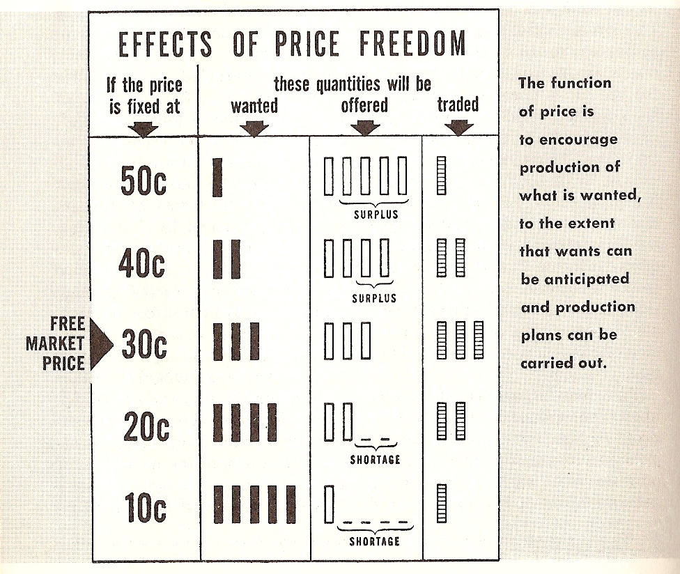 A diagram presenting the argument for free prices